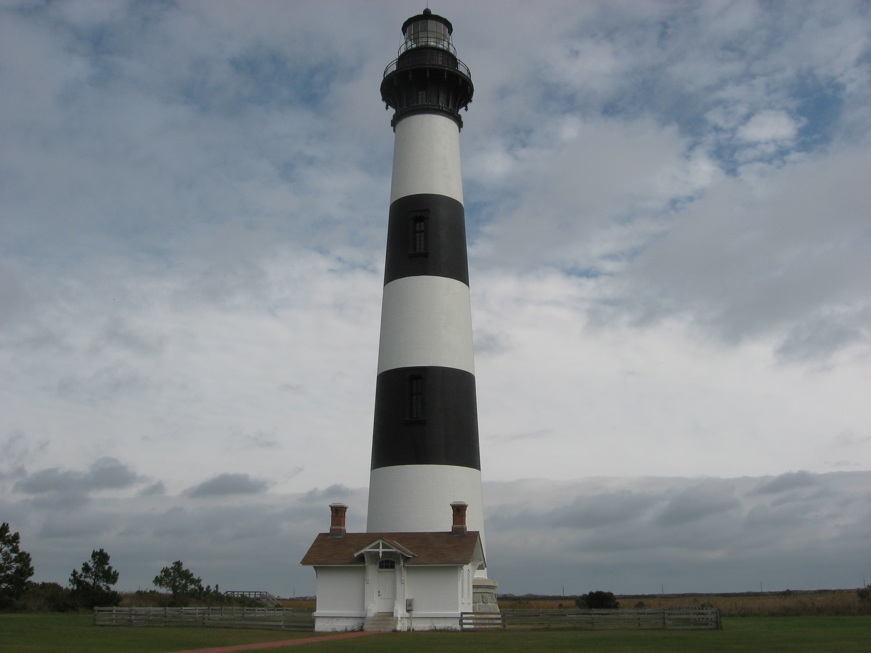 Bodie Island Lighthouse, Outer Banks, North Carolina (United States)